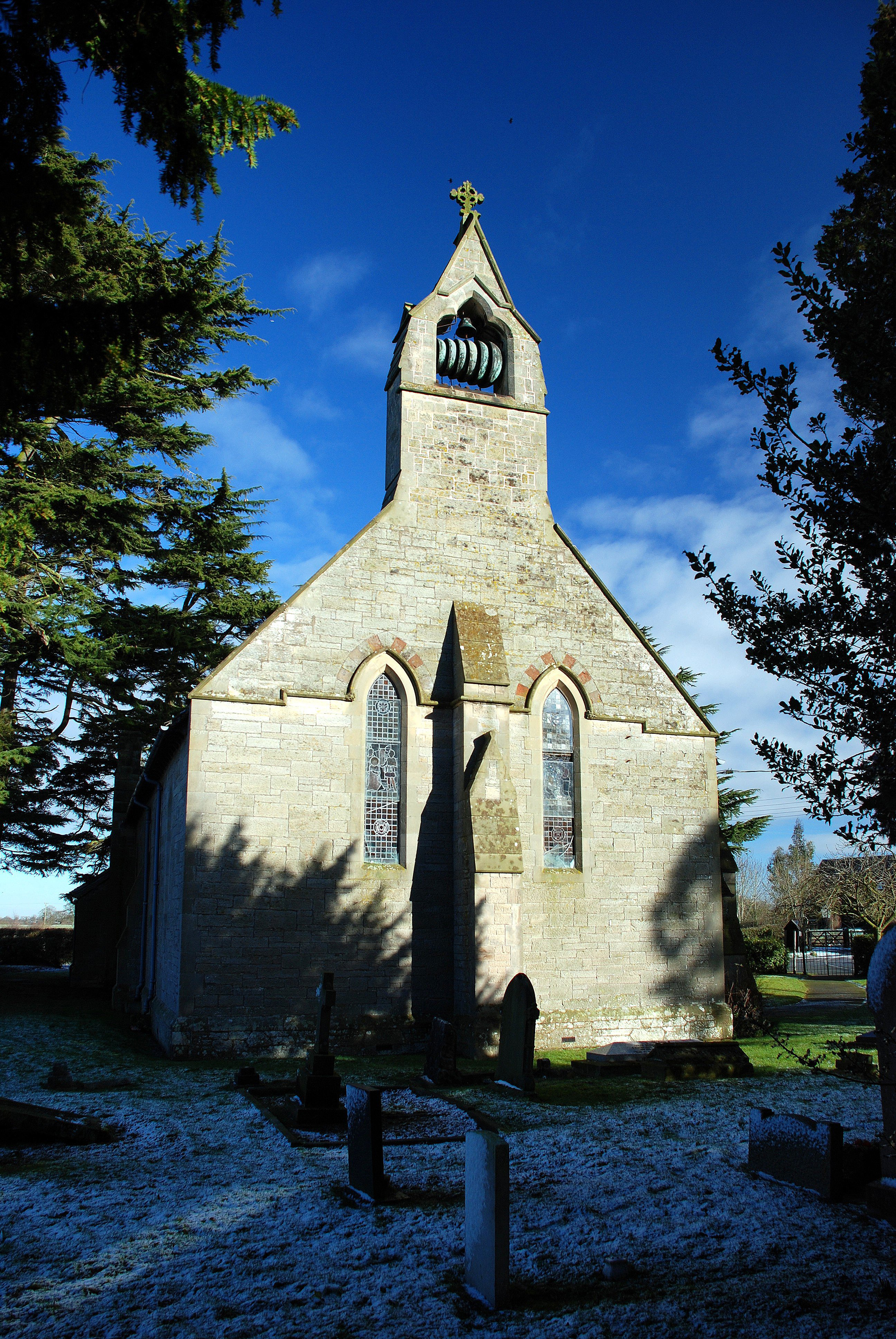 Church Of King Charles The Martyr Wikidata has entry Q26529906 with data related to this item.